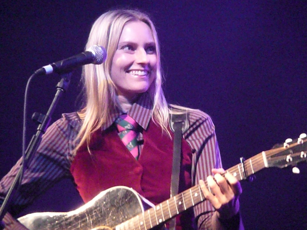 Aimee Mann in concert at Manchester Academy.